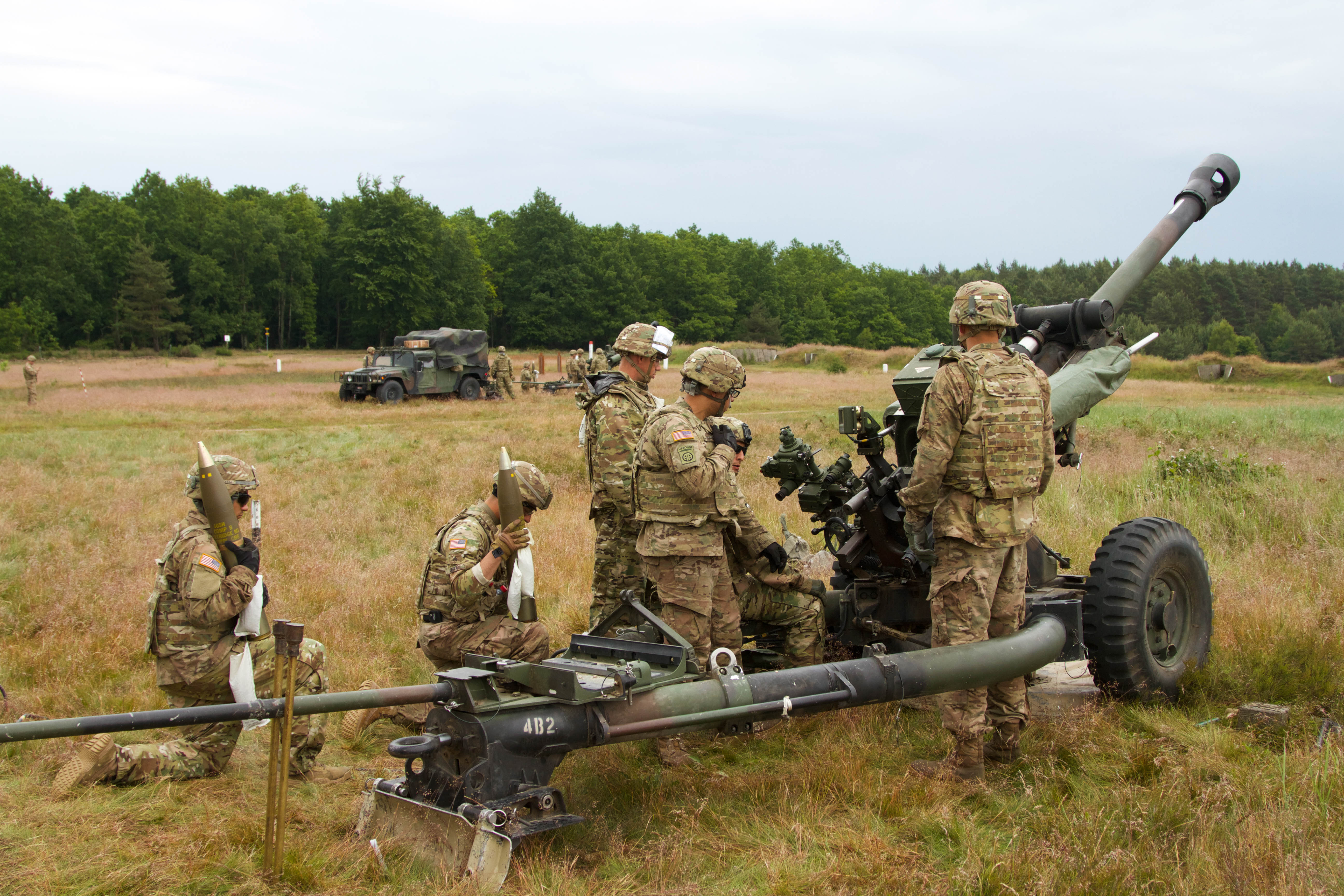 Soldiers with the 4th Battalion, 319th Airborne Field Artillery Regiment, 173rd Airborne Brigade fire an M119 105mm Towed Howitzer June 18, 2015 at the Drawsko Pomorskie Training Area in Poland during Saber Strike 15. Encompassing more than 6,000 participants from 13 different nations, Saber Strike is a long-standing U.S. Army Europe-led cooperative training exercise. Designed to improve joint operational capability in a range of missions as well as preparing the participating nations and units to support multinational contingency operations, this year's exercise takes place across Estonia, Latvia, Lithuania and Poland. (U.S. Army photo by Spc. Marcus Floyd, 13th Public Affairs Detachment)